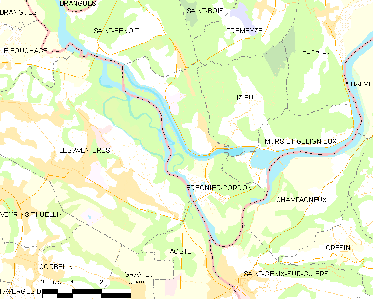 Map of French commune: Brégnier-Cordon Map commune FR insee code 01058.png